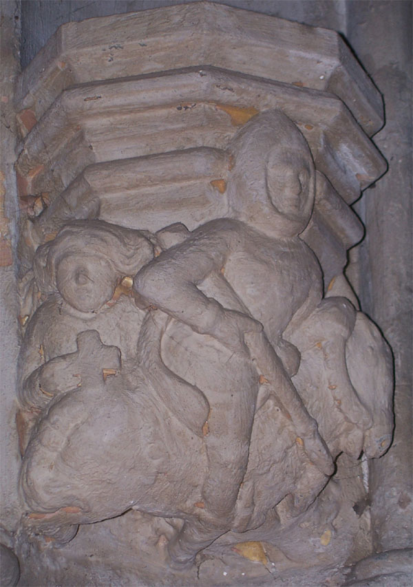 Rosslyn Chapel (Scotland), carving displaying a knight carrying the heart of Robert the Bruce.